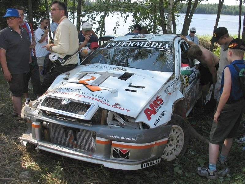 Tamás Tagai's Škoda Octavia WRC after his crash at the 2004 Rally Finland.